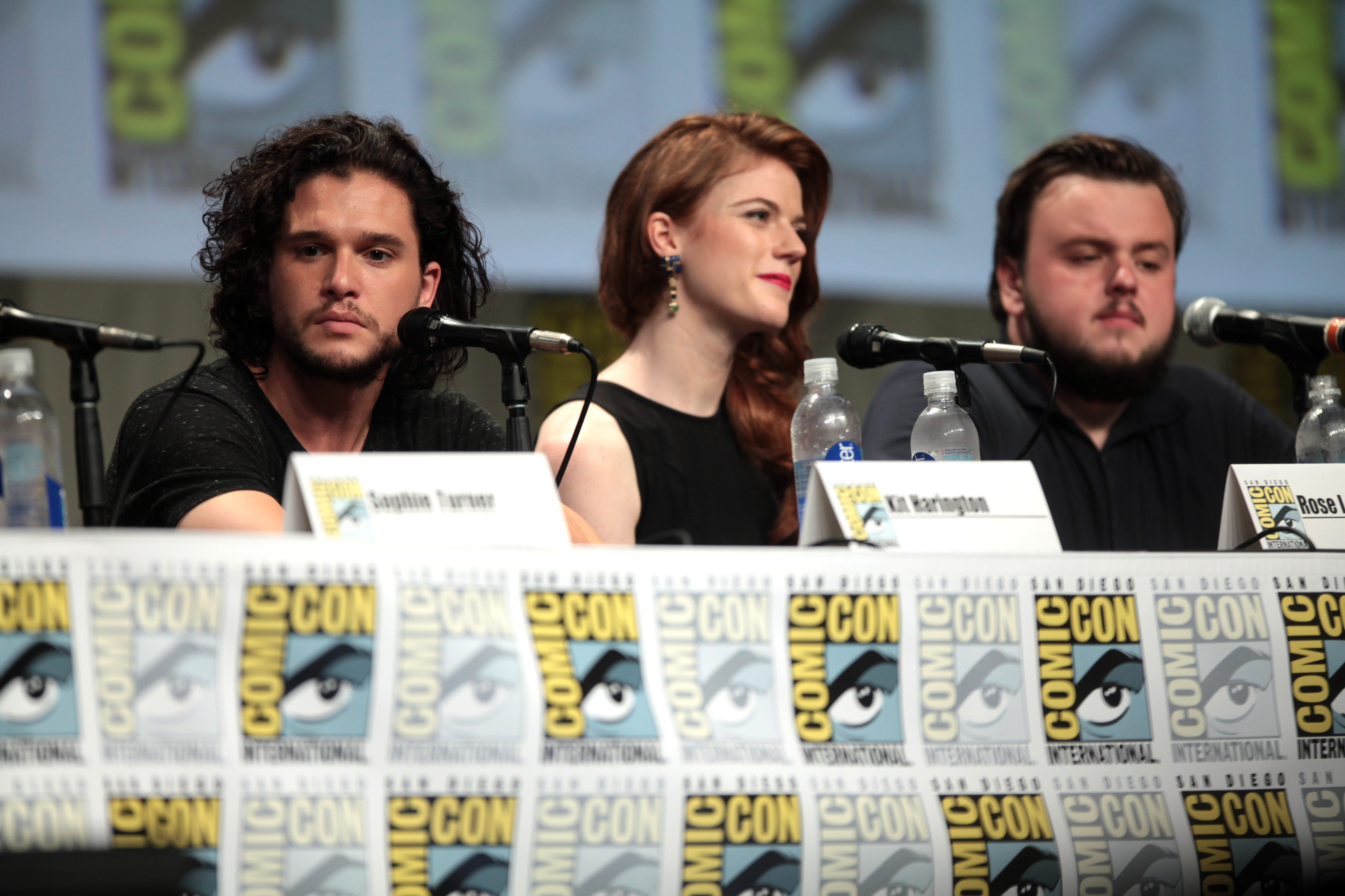 Kit Harrington, Rose Leslie and John Bradley speaking at the 2014 San Diego Comic Con International, for "Game of Thrones", at the San Diego Convention Center in San Diego, California.